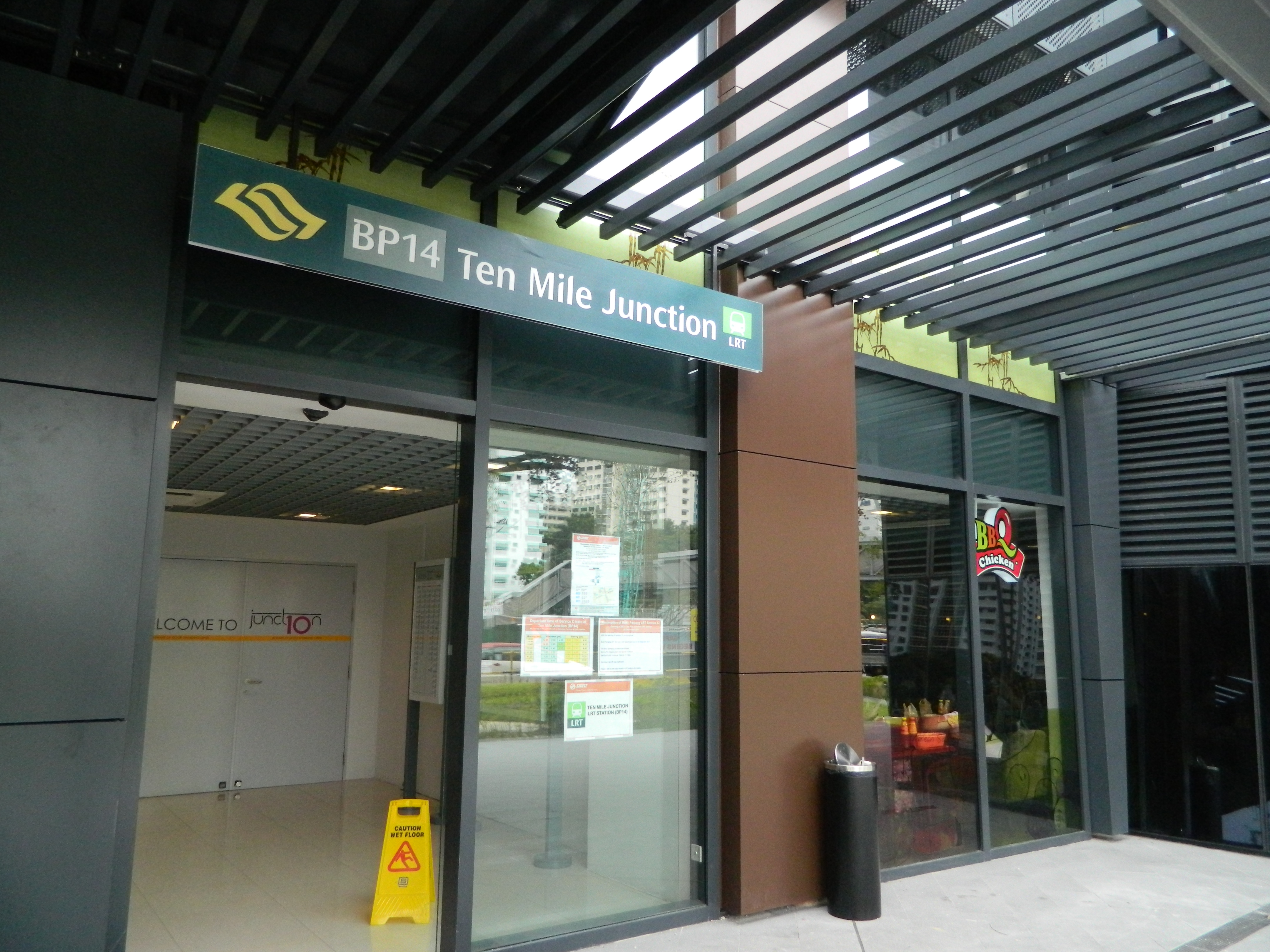 Station Entrance/Exit at Ten Mile Junction LRT station.